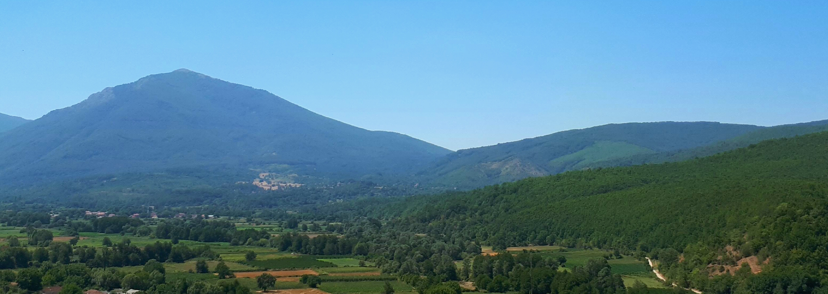 Part of the Veloexpedition in 2017